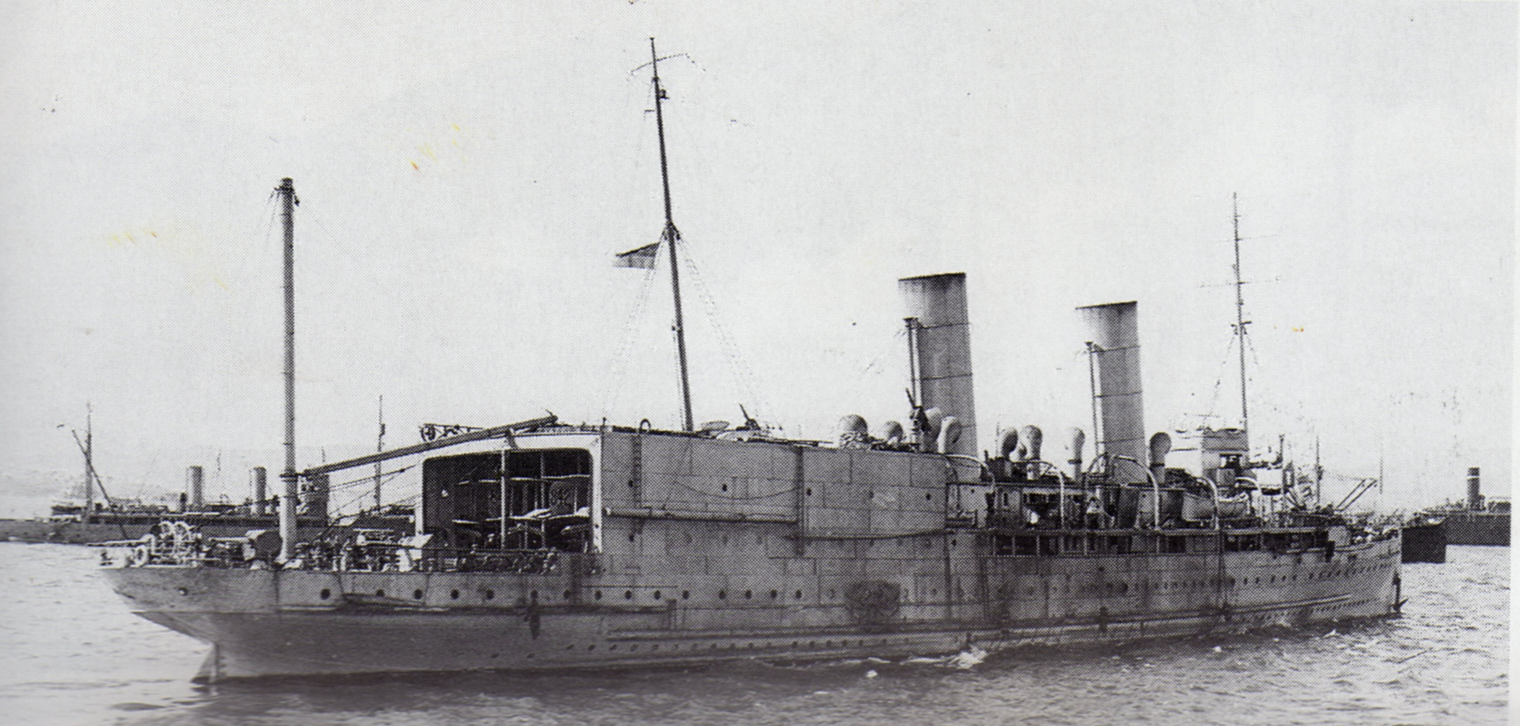 The stern of HMS Ben-my-Chree (cica 1915)